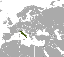 Apennine Shrew (Sorex samniticus) range